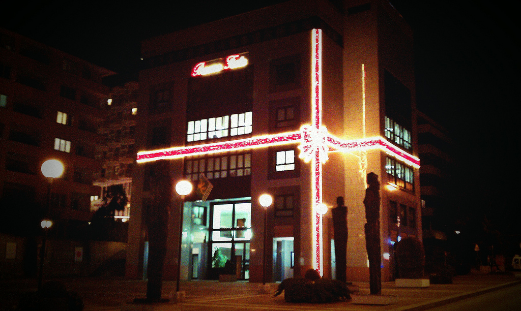 Picture of the Paradiso town hall with xmas decorations